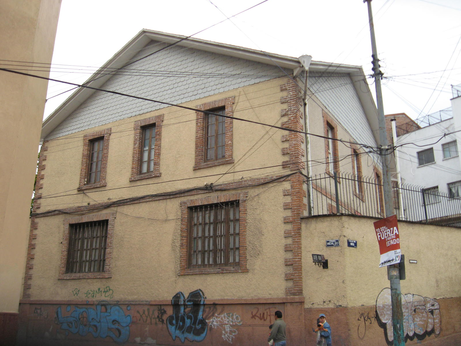 An interesting house located on Mina Street with English and Spanish design features in Pachuca Mexico